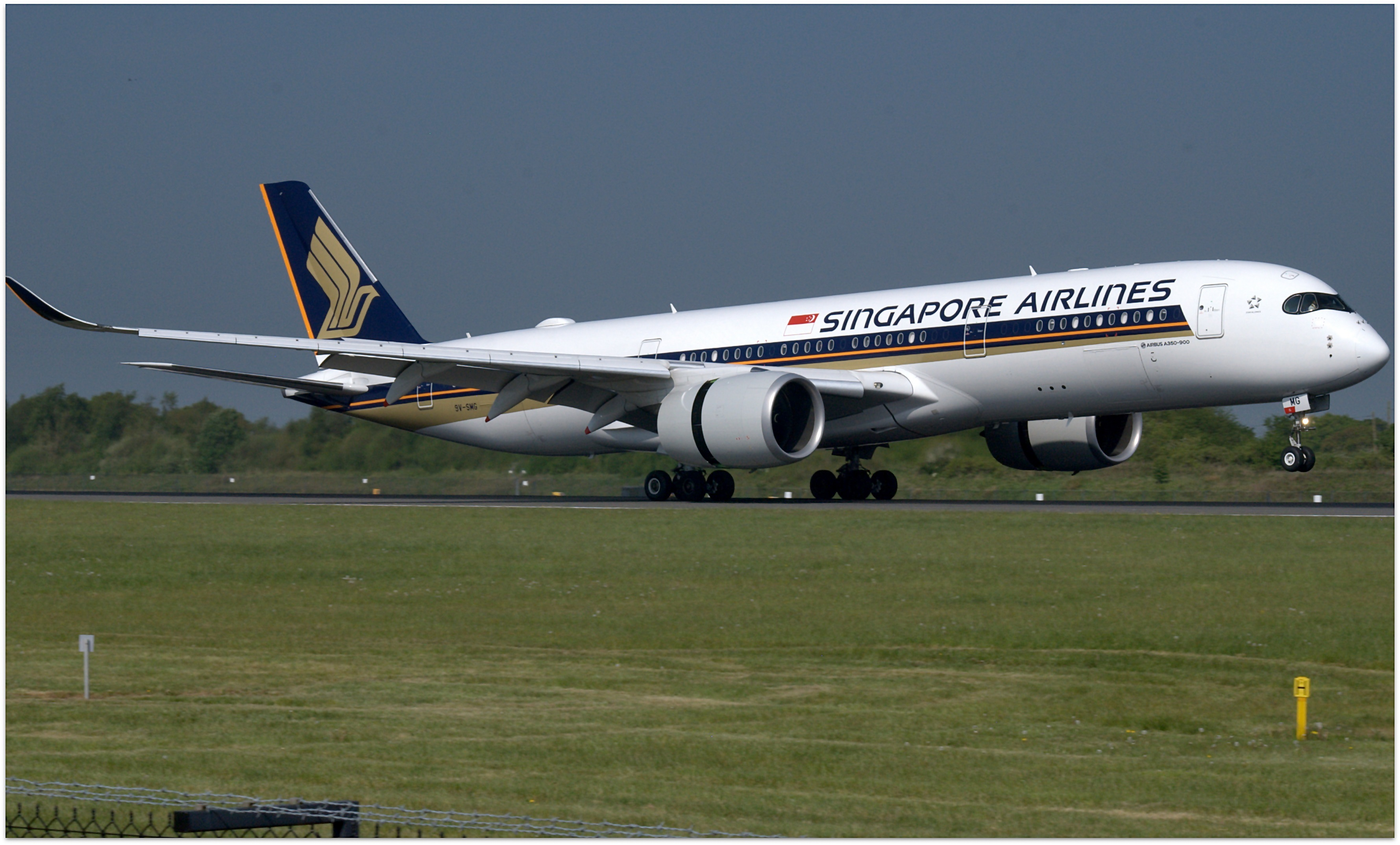 9vsmg Manchester Airport